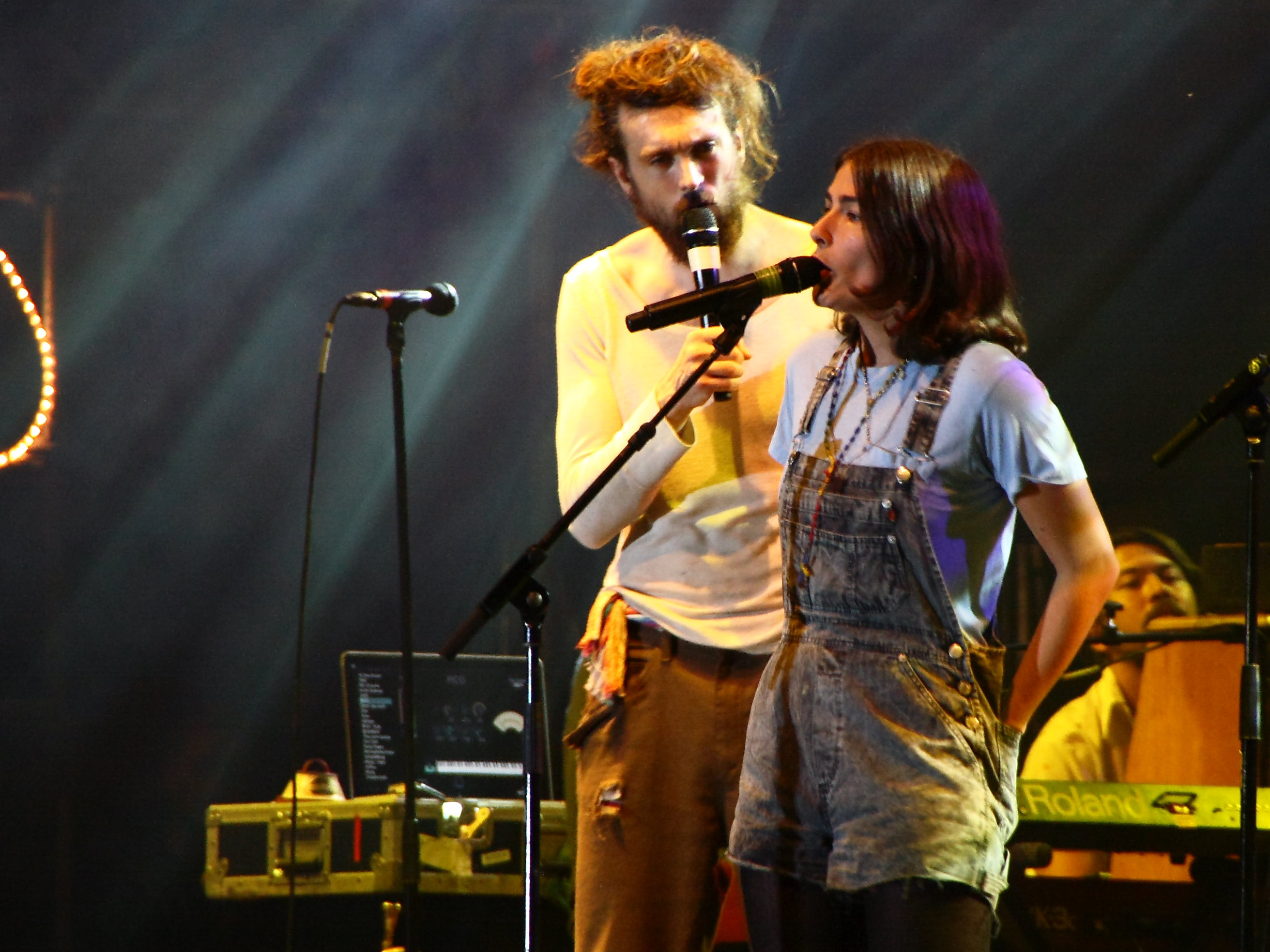 Jade Castrinos and Alex Ebert of Edward Sharpe and the Magnetic Zeros at TFF Rudolstadt 2013.